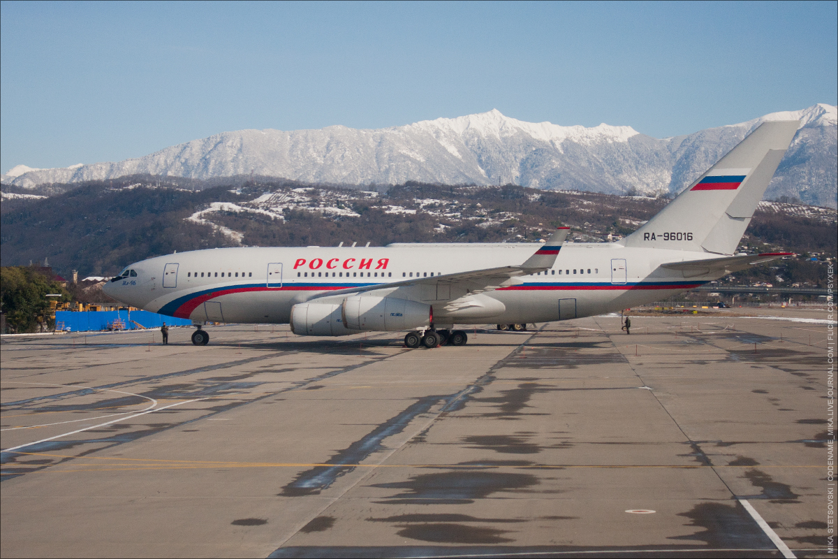 The Russian presidential aircraft is the official aircraft of the President of Russia, when he flies aboard. Il-96-300PU RA-96016 Adler Airport (AER)